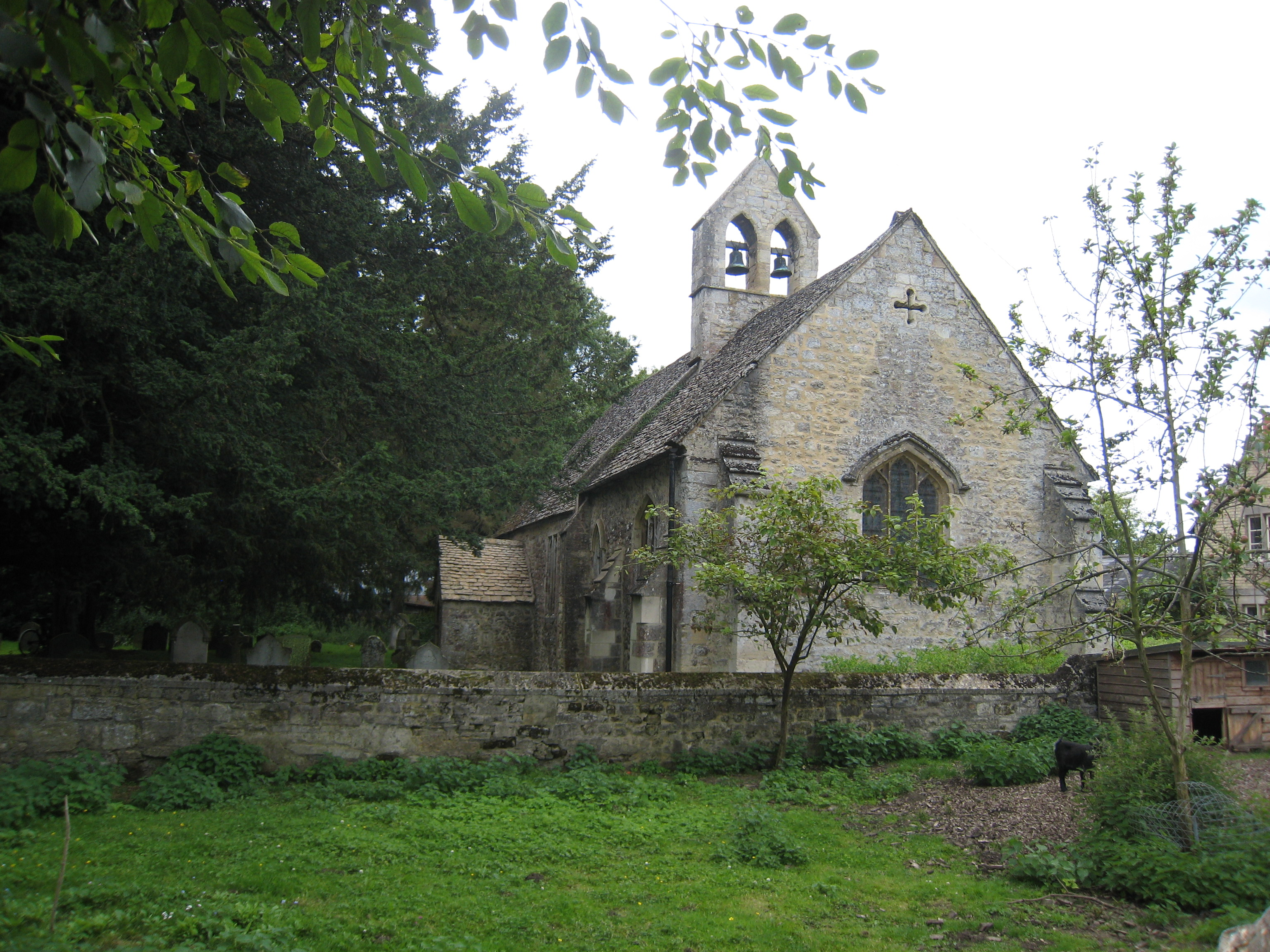 St Margaret's parish church, Binsey, Oxfordshire, seen from the east